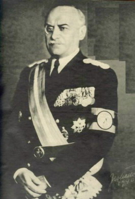 General Ion Gigurtu, Prime Minister of Romania 1940